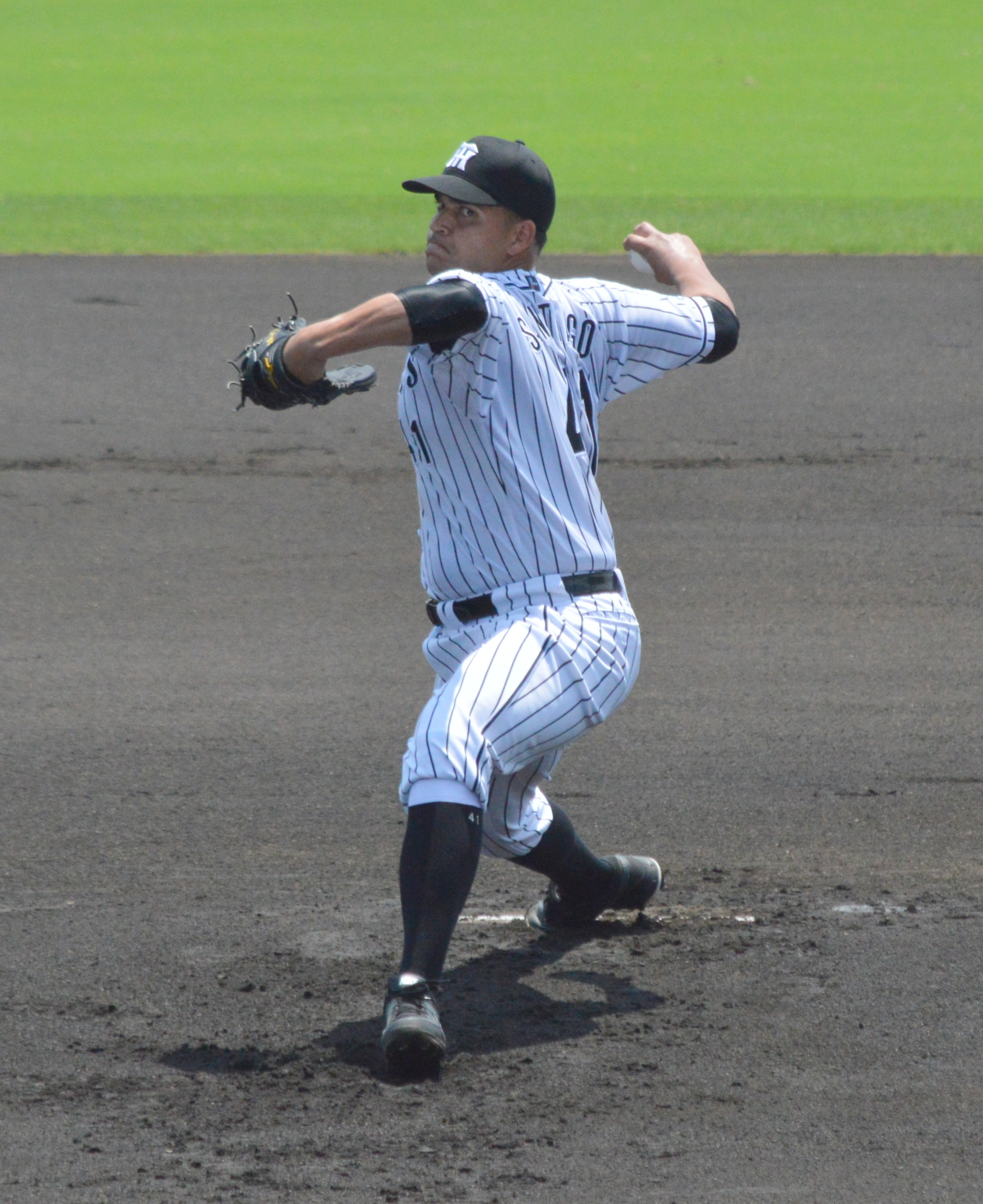 Mario Santiago, pitcher of the Hanshin Tigers, at Hanshin Naruohama Baseball Ground.